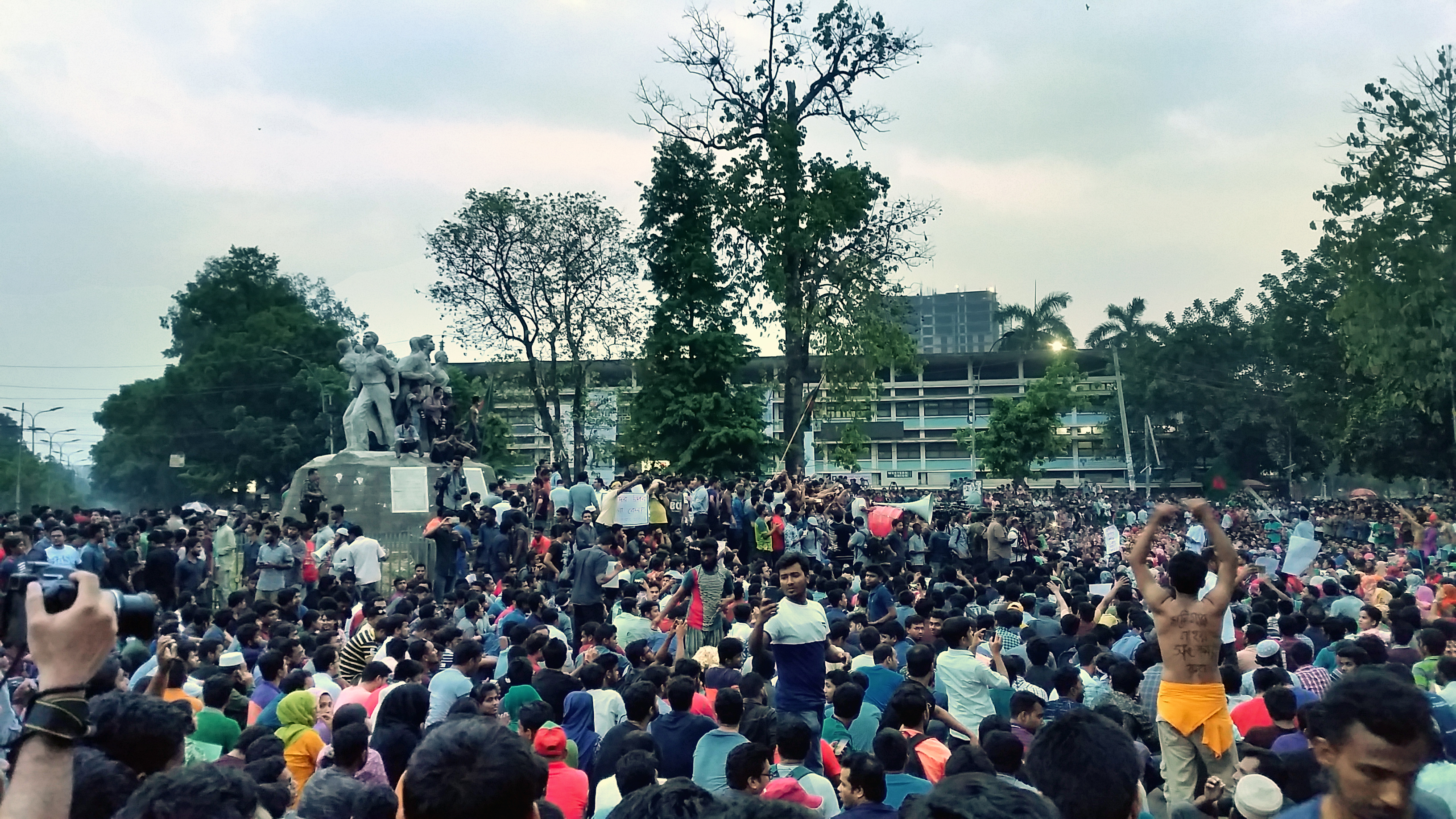 Students gather at the University of Dhaka demanding reform of the quota system in government jobs.